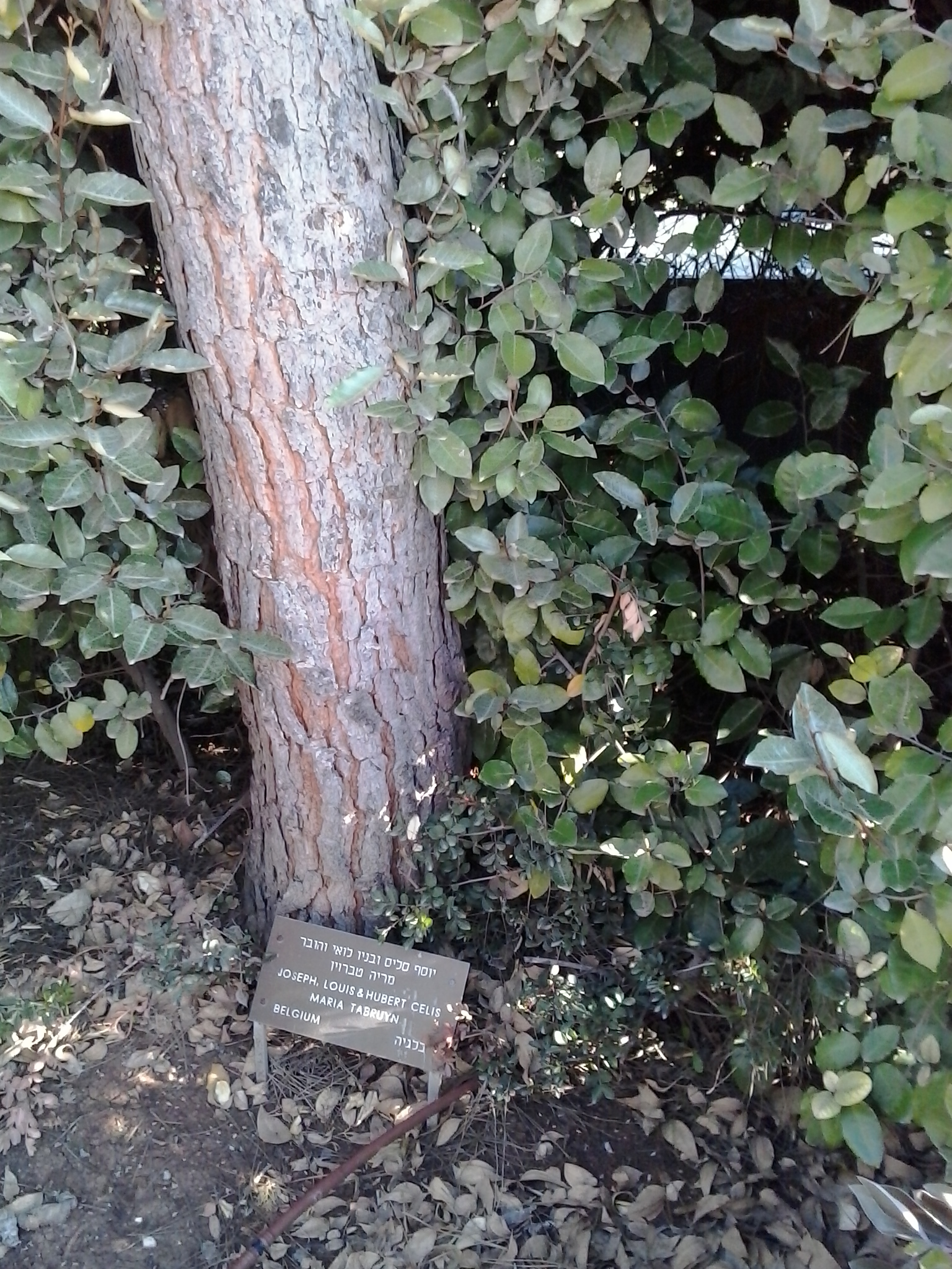 tree planted at Yad Vashem honoring Hubert Celis